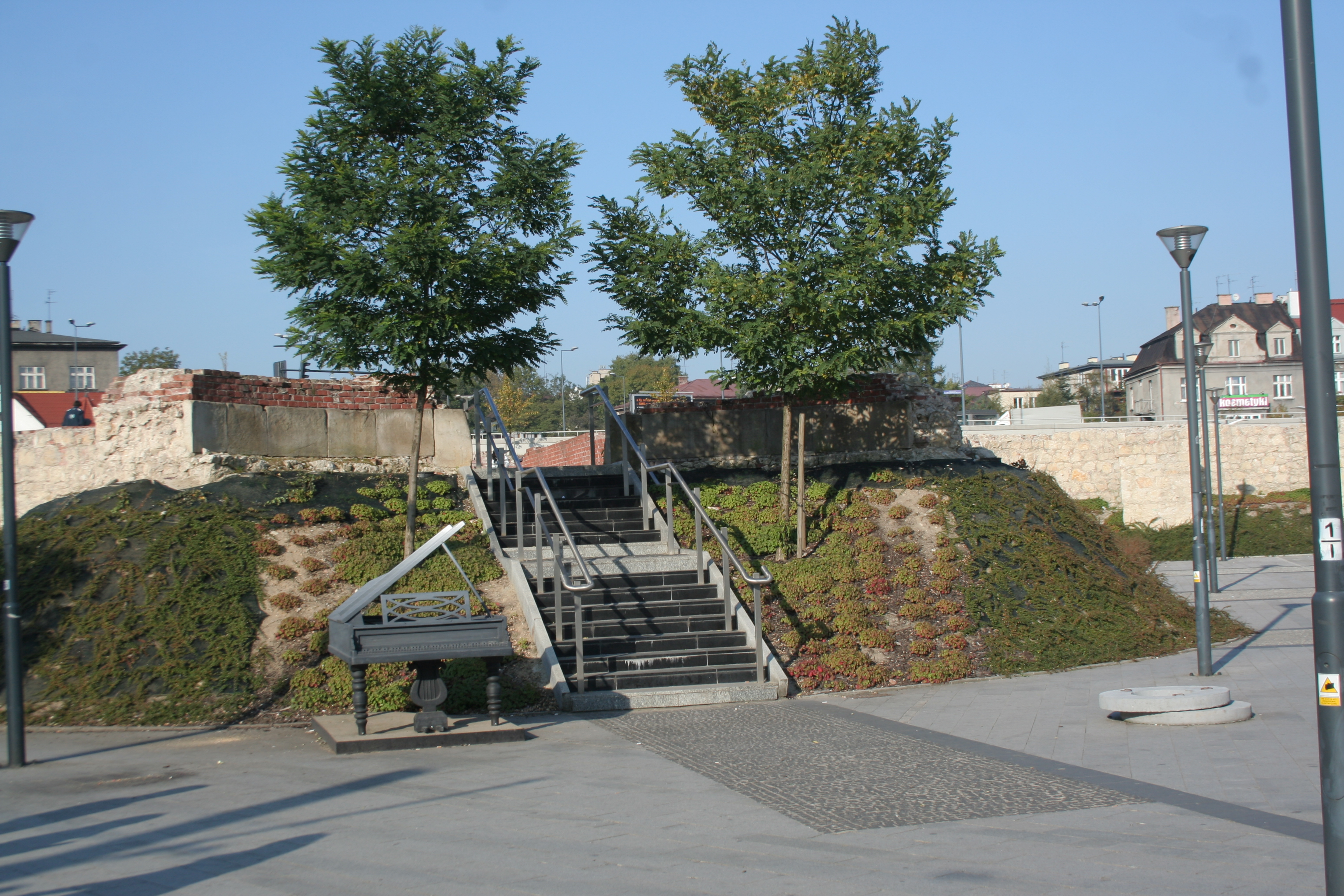 Kraków fortress - Festung Krakau - Bastion V "Lubicz"